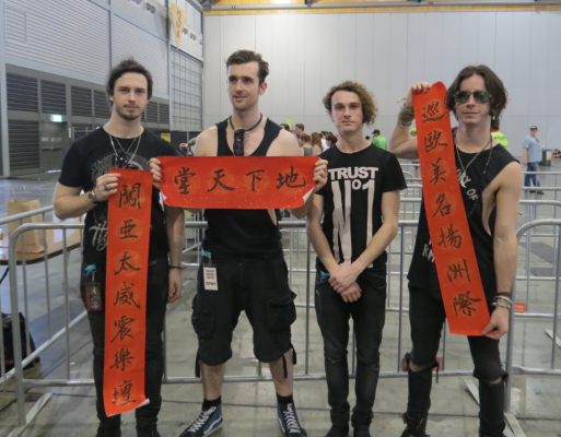 Heaven's Basement holding the Chinese couplet from Taiwan at Soundwave Sydney.